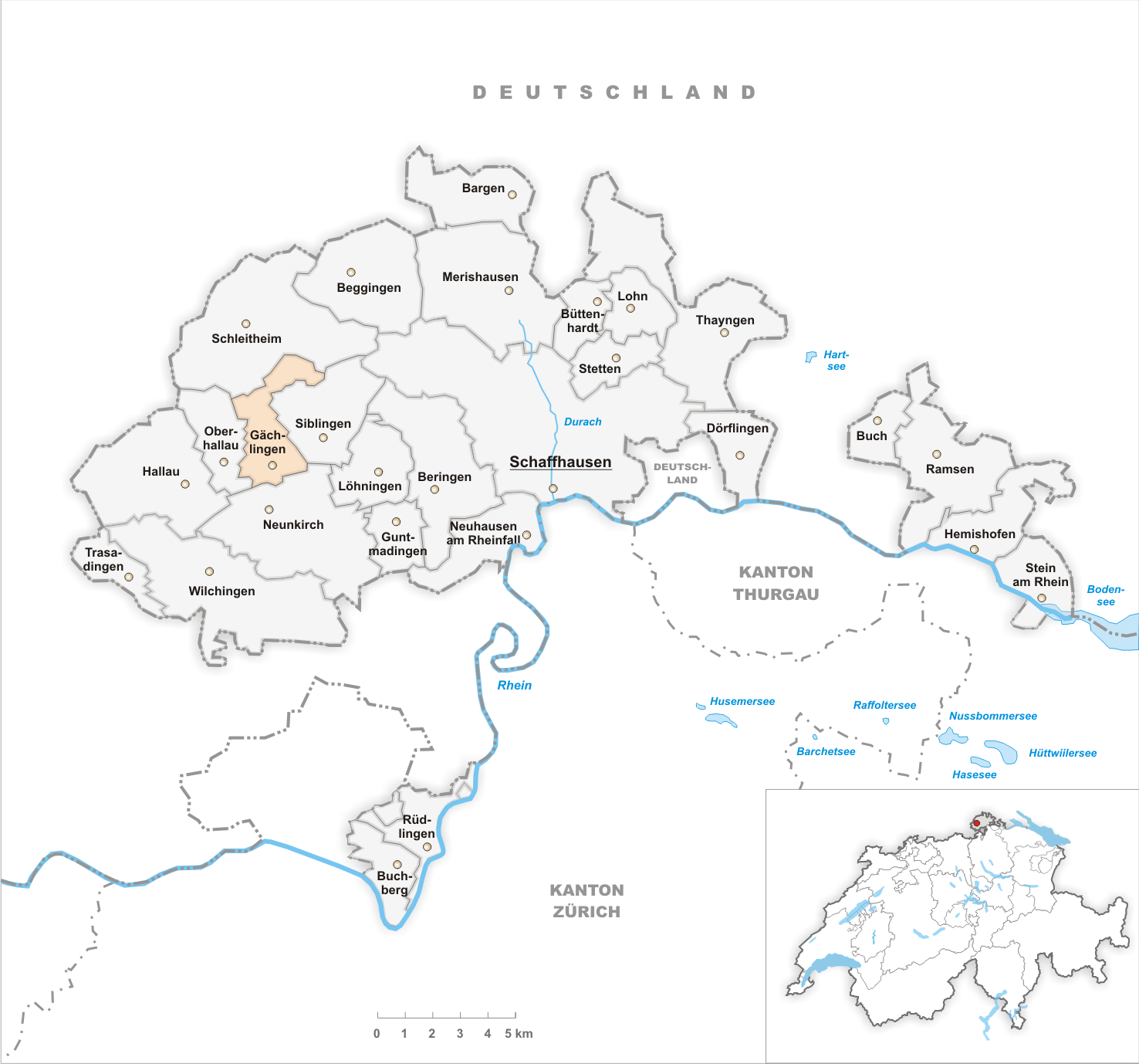 Municipality Gächlingen